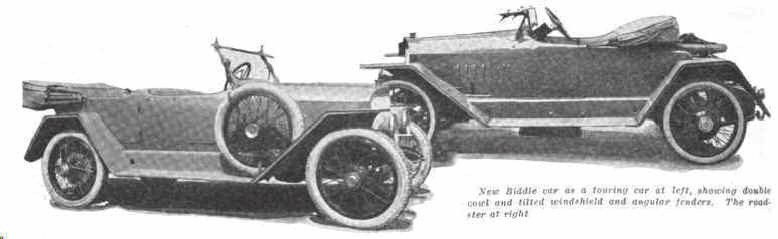 Biddle Model D Touring and Roadster (1915). These cars were made vy the Biddle Motor Car Company in Philadelphia for a wealthy clientele. Coachwork was custom-built, mainly by the Fleetwood Body Co. in Reading, Penn. Note dual cowl passenger compartment on the touring, and angular Fender design - the ladder lasted not for long.